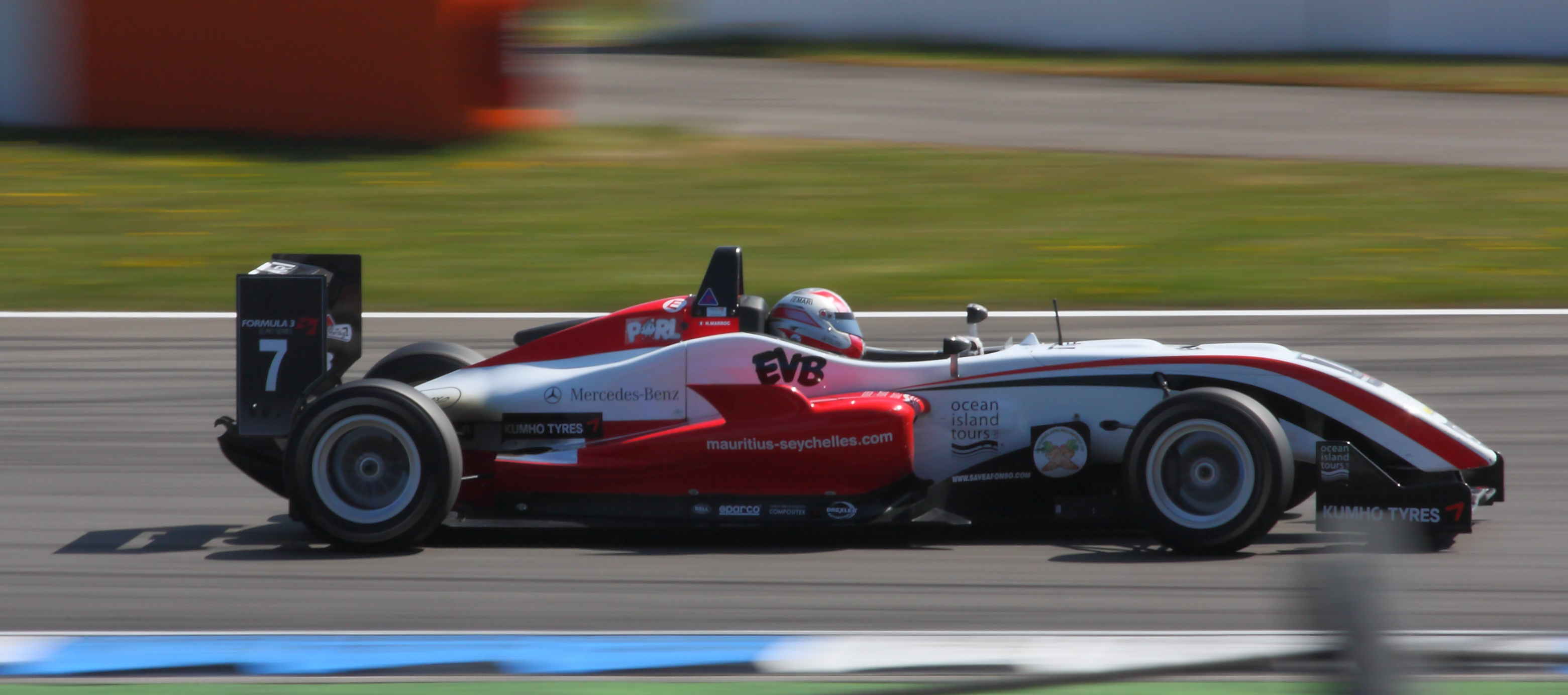 Formula 3 Euroseries, Hockenheimring; Nicolas Marroc